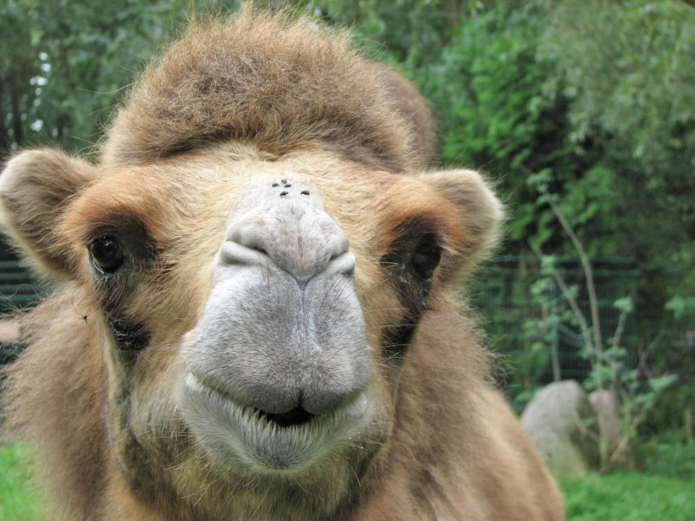 Camelus bactrianus. Bactrian Camel. Zoo Hamm. Germany